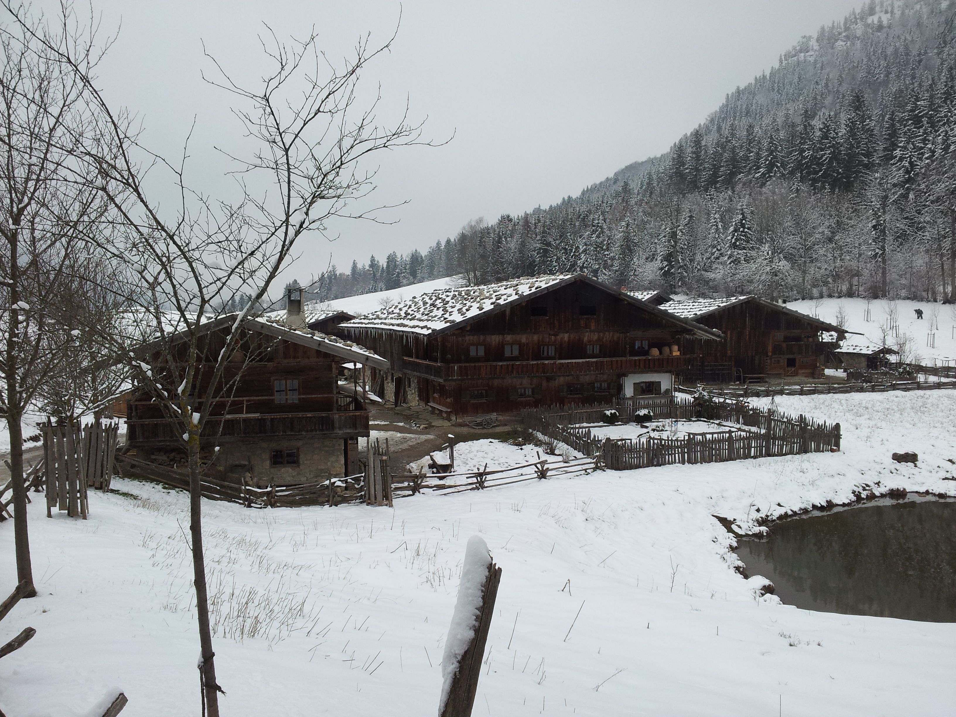 Markus Wasmeier farm and winter sports museum, Overview